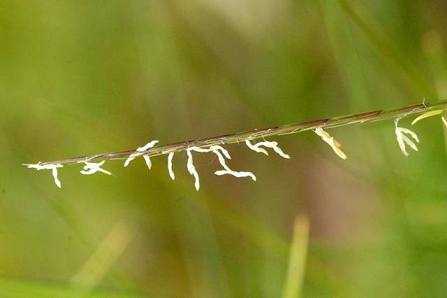 Nardus stricta from Commanster, Belgian High Ardennes .